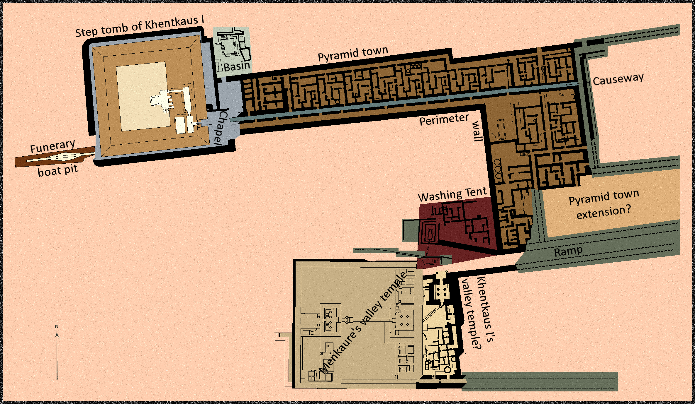 Khentkaus' mortuary complex, from west to east, then south to south-west: funerary boat pit, Step tomb of Khentkaus, causeway and pyramid town (east), pyramid town (south), washing tent, Khentkaus I's valley temple, and Menkaure's valley temple.